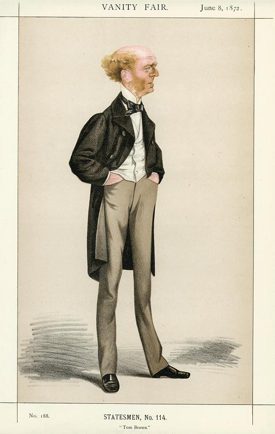 Caricature of Thomas Hughes M.P. (1822-1896). Caption read "Tom Brown".